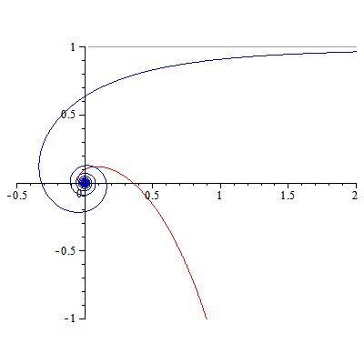 A logarithmic spiral and its evolute